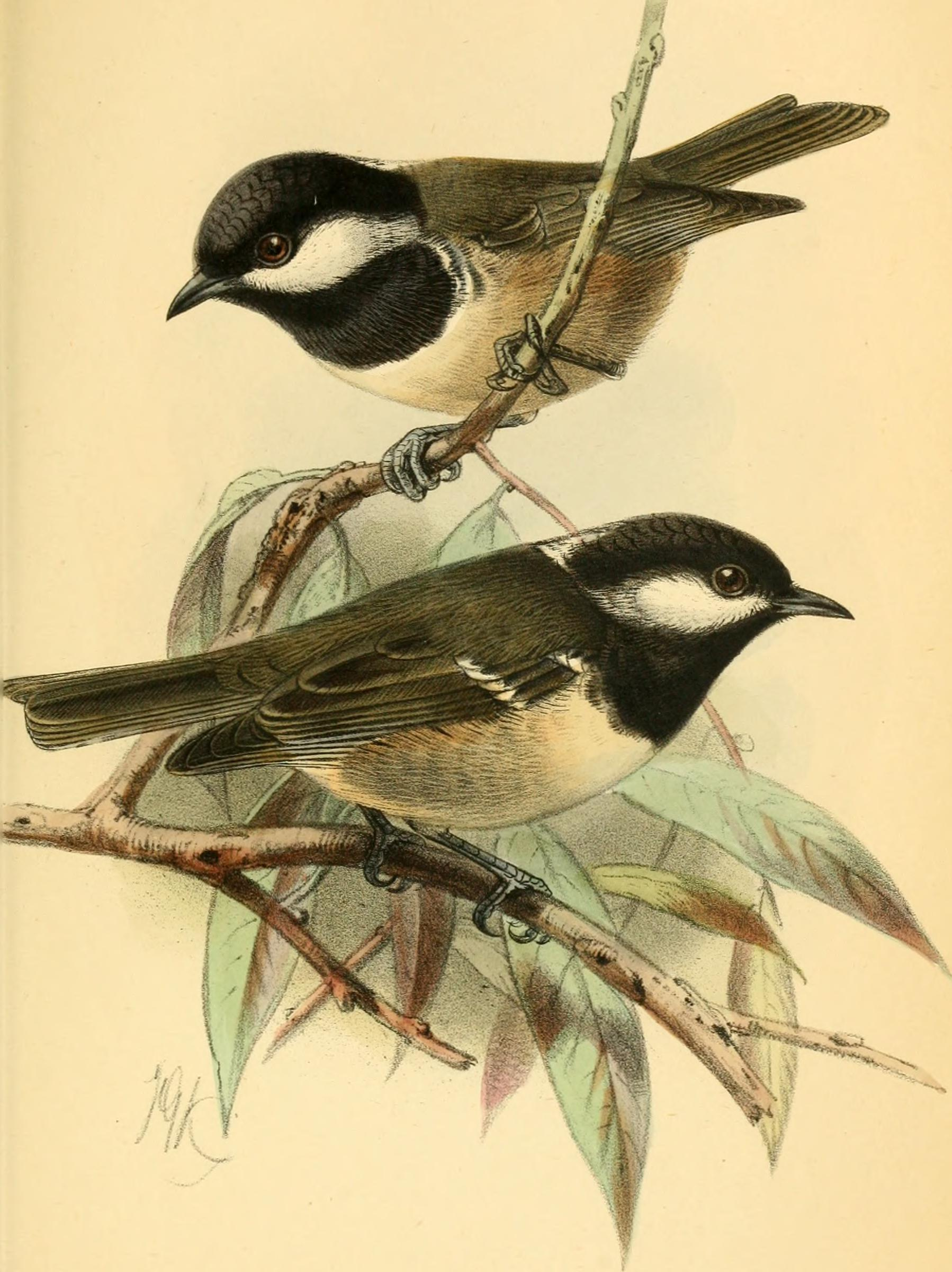 Title: The Ibis Year: 1859 (1850s) Authors: British Ornithologists' Union Subjects: Birds Publisher: (London) : Published for the British Ornithologists' Union by Academic Press Text Appearing Before Image: . XeuJp.mnjis dcl.ellilK ACRIDOTHERES ALBOCTNCTUS Minierti Bros . ii; Ibis. 1888. PI. II. Text Appearing After Image: J. G.i-e.ii)em.ans del.etlitK- PARUS CYPRIOTES. MinteiTL Bros. uiip. Ibis. 1888. PI. III.